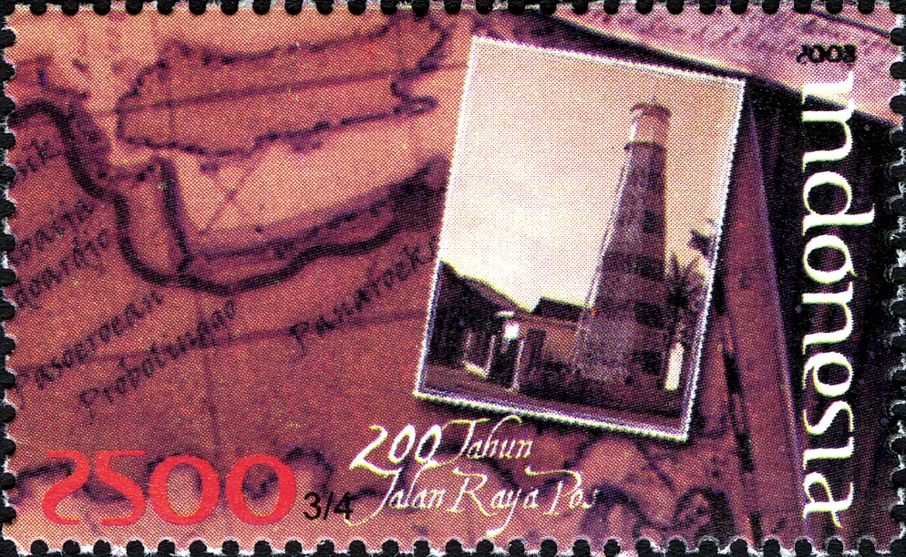 Stamps of Indonesia